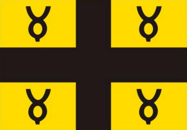 Flag of Cruz das Almas, Bahia, Brazil